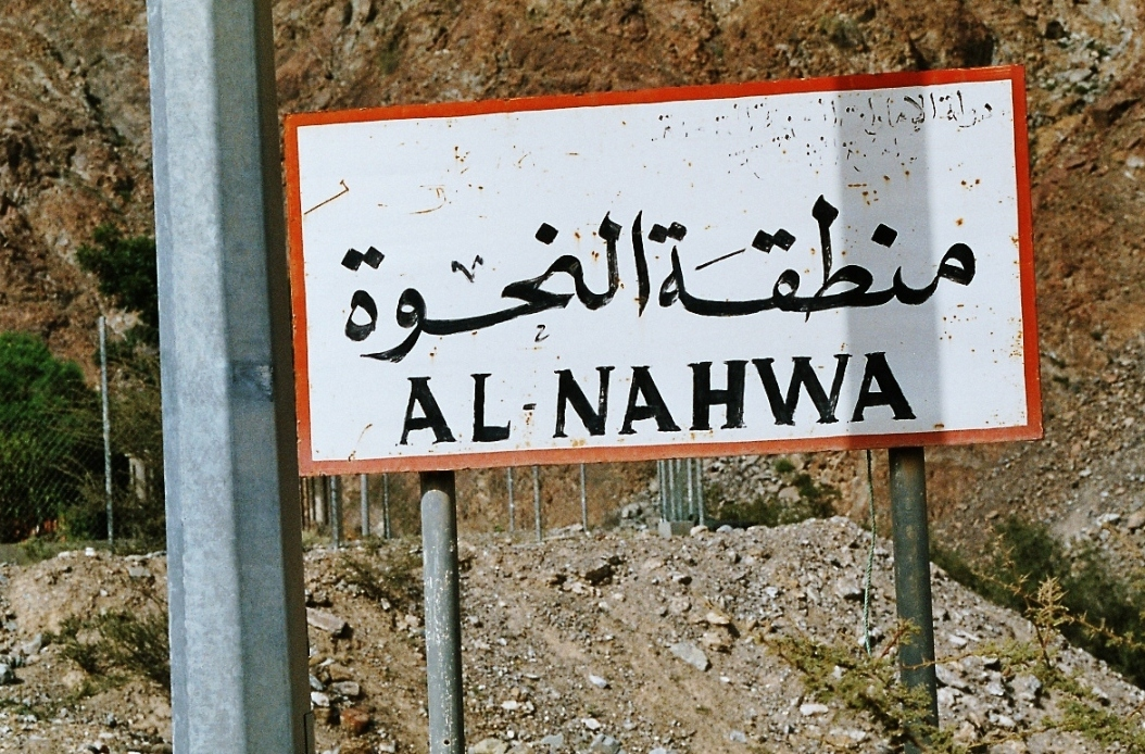 Village sign of Nahwa, a counter-exclave of the UAE in the Oman enclave of Madha